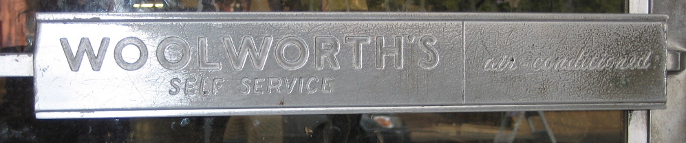 Door handle of mid-20th century Woolworth's store, Magazine Street, Uptown New Orleans.